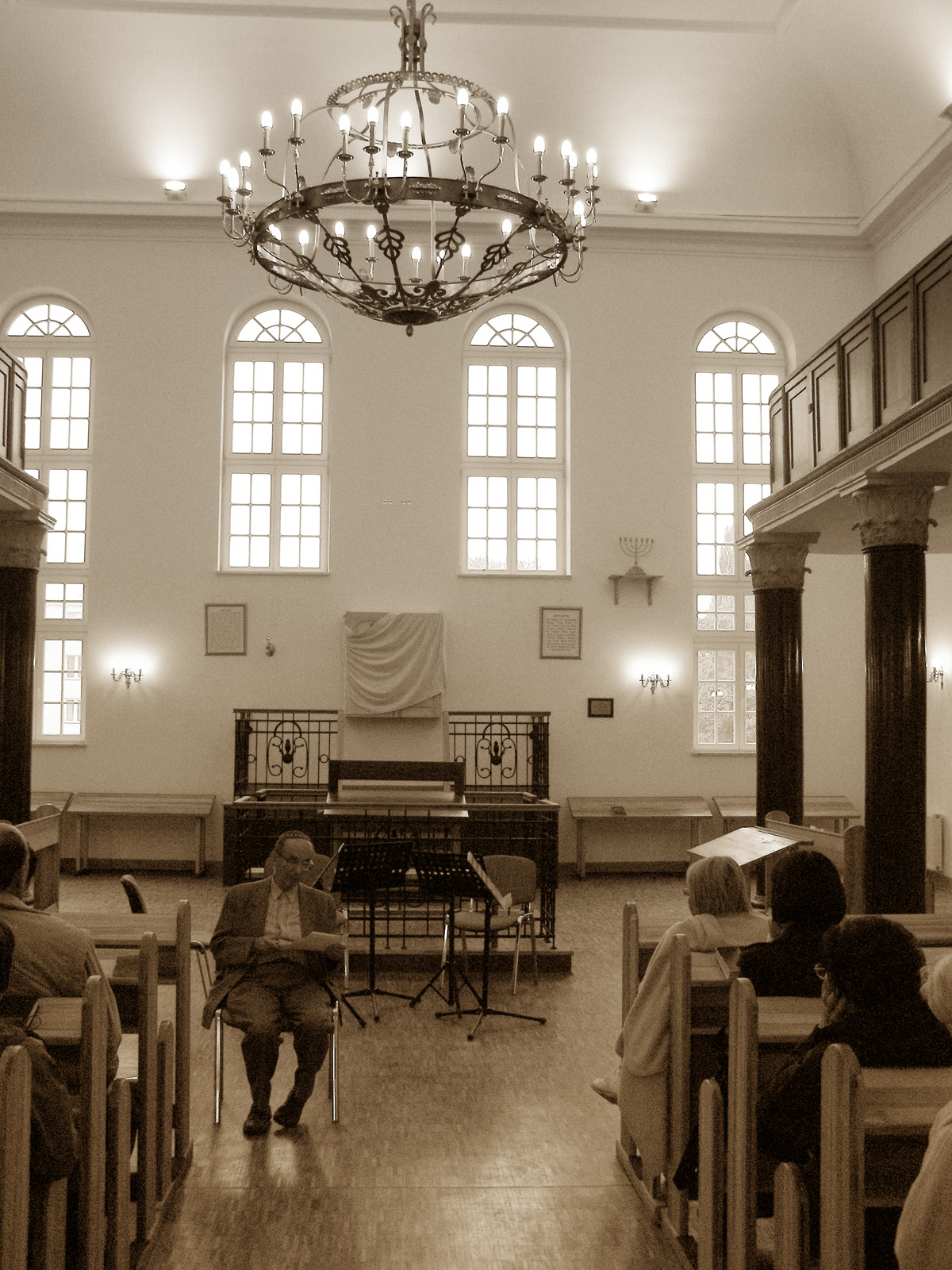 European Heritage Days Lublin 2008: „Roots of Tradition. From Home to Homeland”.